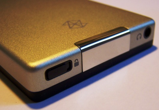 A picture of the Zune in its second version.(The 80GB model)